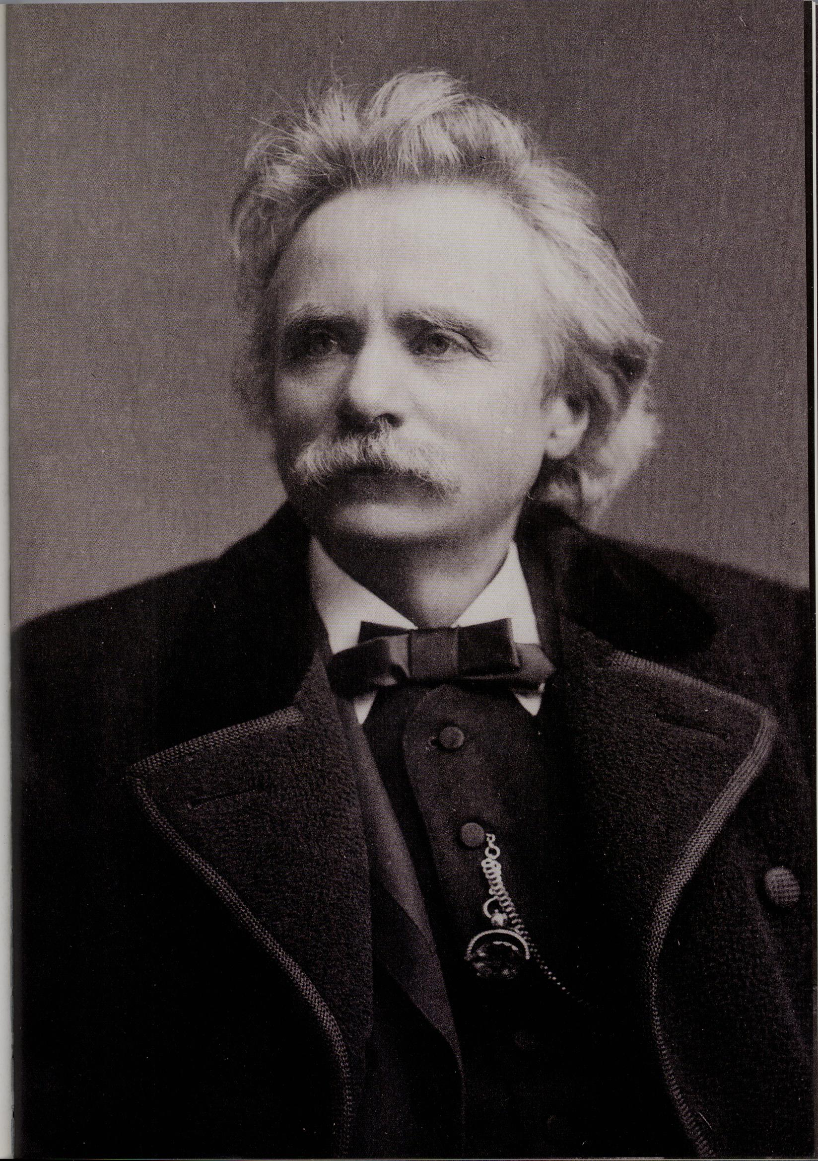 Artist: Elliott & Fry Date/place: ca. 1888, London Subject: Edvard Grieg Medium: photographic positive, B&W Notes: also printed as postcard Persistent URL: [#//nettbiblioteket.no/grieg-samlingen/engelsk/grieg_intro_eng.html” Original belongs to the Edvard Grieg Archives at Bergen Public Library]